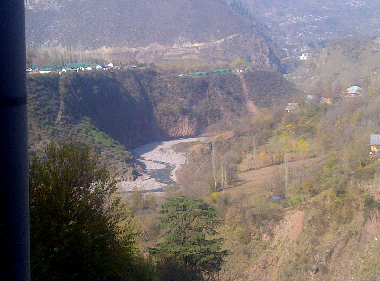 River Jehlum in Uri.